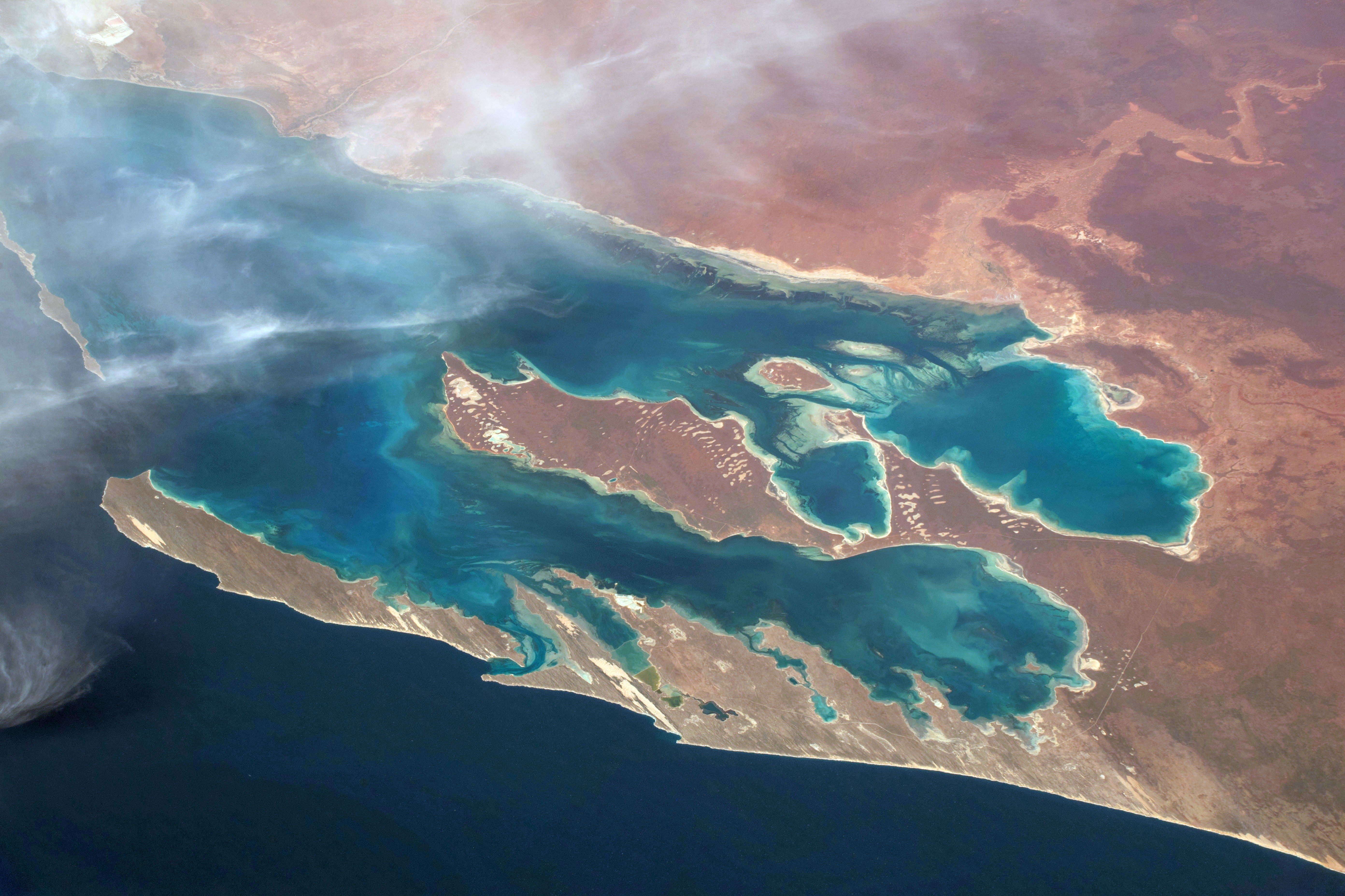 The International Space Station was flying 257 miles above Western Australia when an Expedition 57 crew member photographed Shark Bay and Sedimentary Deposits Reserve on the west coast of the continent.